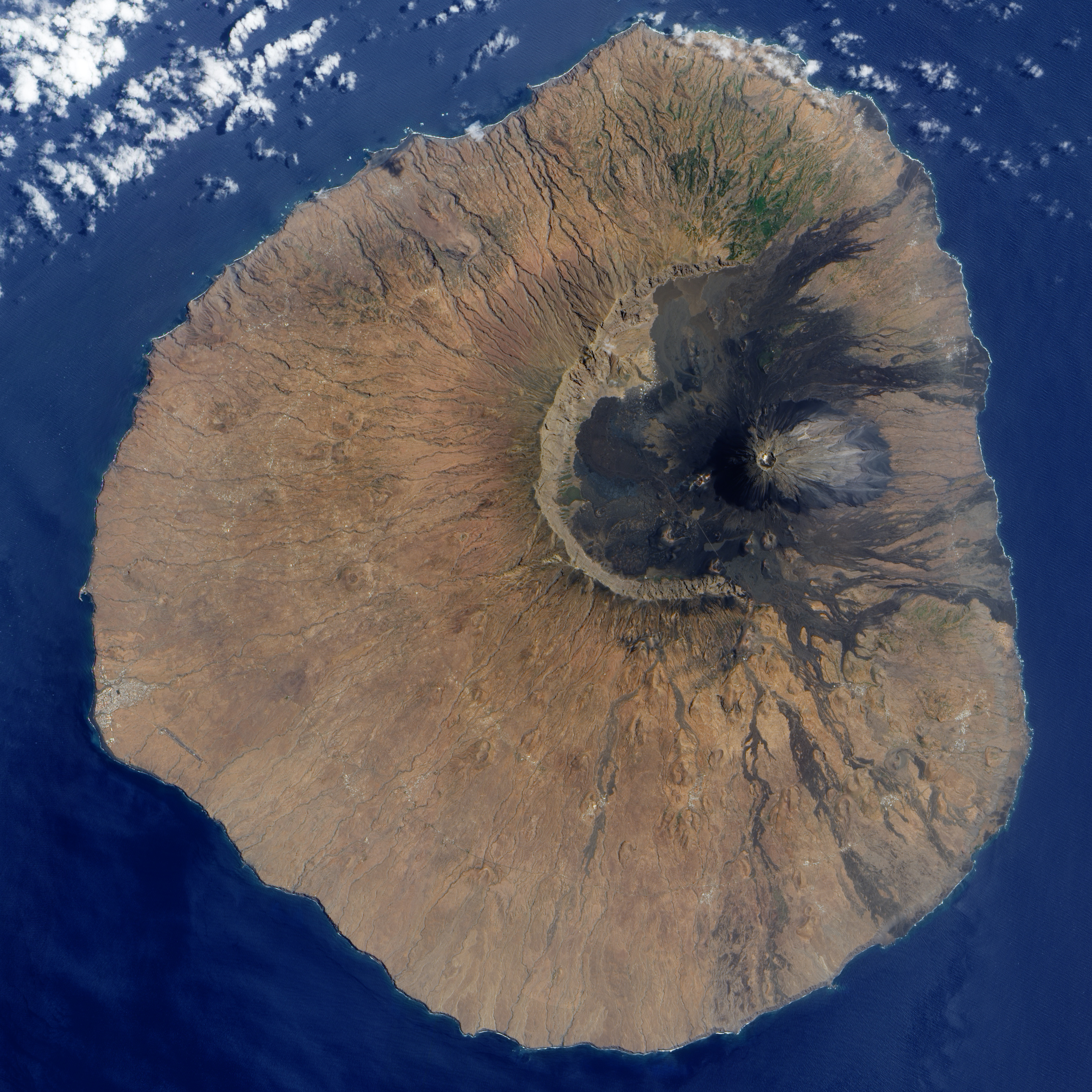 The volcano’s most distinctive feature, its nine-kilometre wide caldera, Cha Caldera, is shown in this image. The crater wall in the west towers one kilometre above the crater floor. The eastern half of the crater wall is gone, erased in a massive collapse deep in its ancient history. Evidence of the volcano’s more recent eruptive history is written on the surface of the crater as well. In the centre of the crater, a steep cone named Pico rises about 100 meters above the crater rim (more than a kilometre from the crater floor). The young peak reaches 2,829 meters above sea level, making it the island’s highest point. Dark trails of hardened lava from the volcano's most recent eruptions stream out of the crater east into the Atlantic Ocean. The volcano last erupted in 1995. The sepia stream of lava from that eruption is pooled near the crater rim west of Pico. Remarkably, the crater is inhabited. A straight road cuts between the crater wall and Pico, ending near the vent that erupted in 1995. Bright white dots on the north side of the crater are villages. Residents of the Cha Caldera evacuated during the eruption.